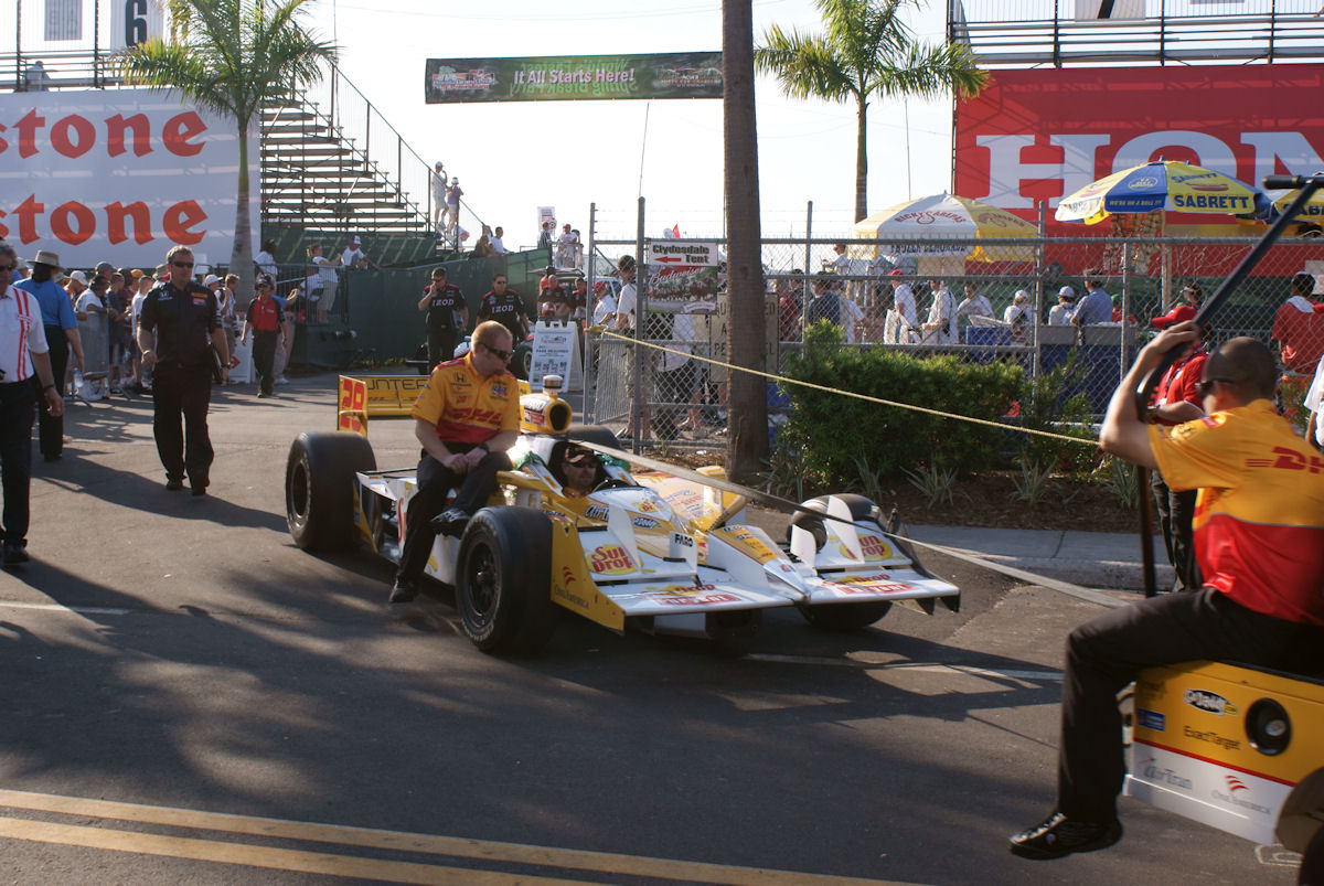 Ryan Hunter-Reay driving the Dallara IR5 for Andretti Autosport at the 2011 St. Petersburg Grand Prix. Round 1 of the 2011 IndyCar Series.